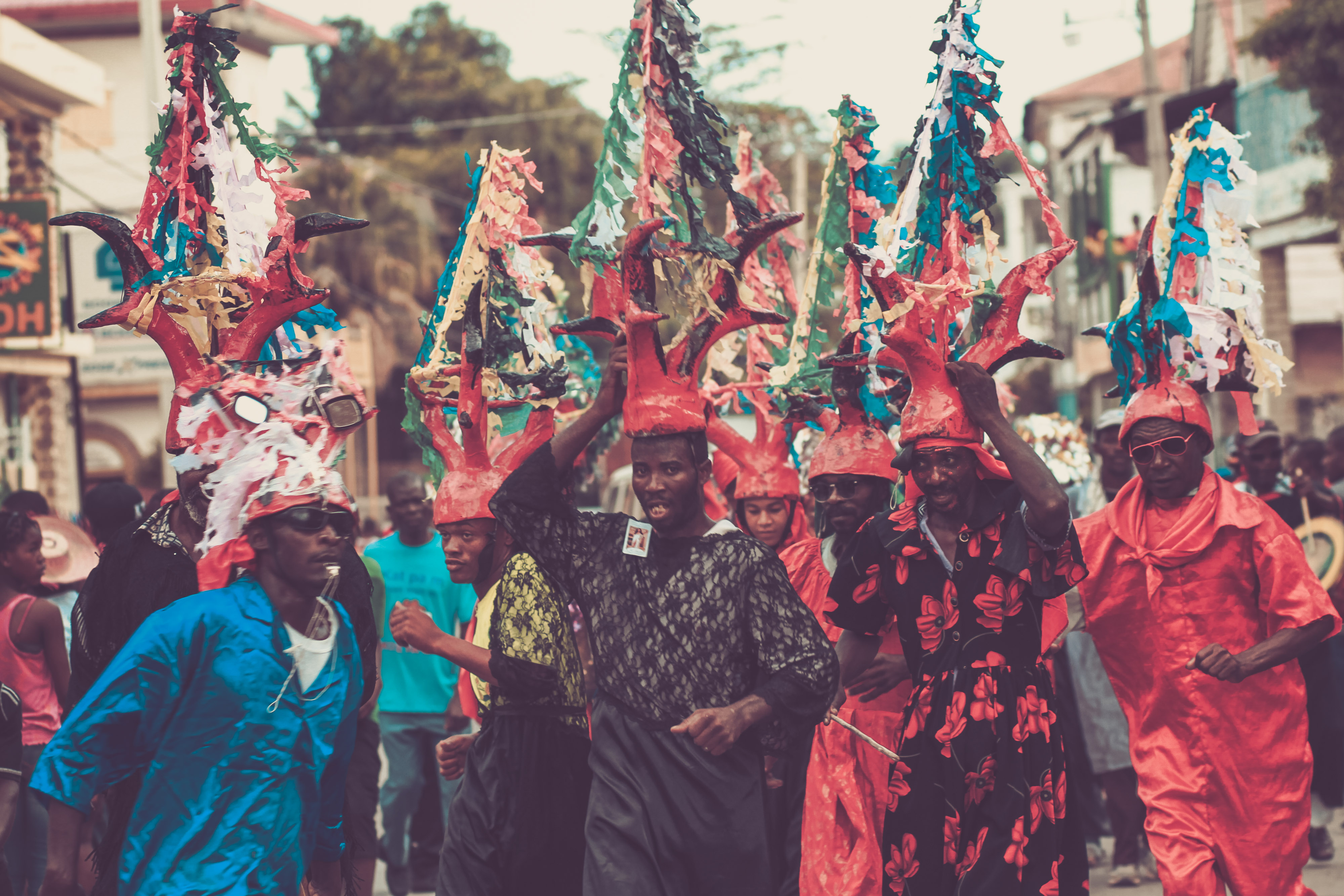 Sometimes I shoot on an 80mm lens to help viewers of my photographs feel the moments as I experienced them. Caches of micro-minutiae. Stolen moments amplified in real time with sounds, light and stored away in my mind. Kanaval is many things. A crash course of colonial history, ancient religion and modern culture. Kanaval is hot, sweaty, overwhelming. It is also beautiful, exciting and vibrant. I hope you can experience it at least once. Amazing. ... Haiti has a unique traditional carnival, Rara, that is separate from the main pre-Lent Kanaval celebrations. Rara processions take place during the day and sometimes at night during Lent, then culminate in a week-long celebration that takes place at the end of Lent, during the Catholic 'Holy Week', which includes the Easter holiday. Rara has its roots in Haiti's an deyò areas, the rural areas around Port-au-Prince. It is based on peasant Easter celebration customs. Rara celebrations include parades with musicians playing drums, tin trumpets, bamboo horns called vaksens, and other instruments. Parades also include dancers and costumed characters such as Queens (called renns), Presidents, Colonels, and other representatives of a complex rara band hierarchy, similar to the krewe organization of New Orleans Mardi Gras bands. Kanaval celebrations end on Mardi Gras, which is French for 'Fat Tuesday', also known as Shrove Tuesday. Mardi Gras is the Tuesday before the Roman Catholic holiday known as Ash Wednesday. Ash Wednesday marks the beginning of the Lenten season, a somber period of fasting and penance that precedes Easter for Catholics.